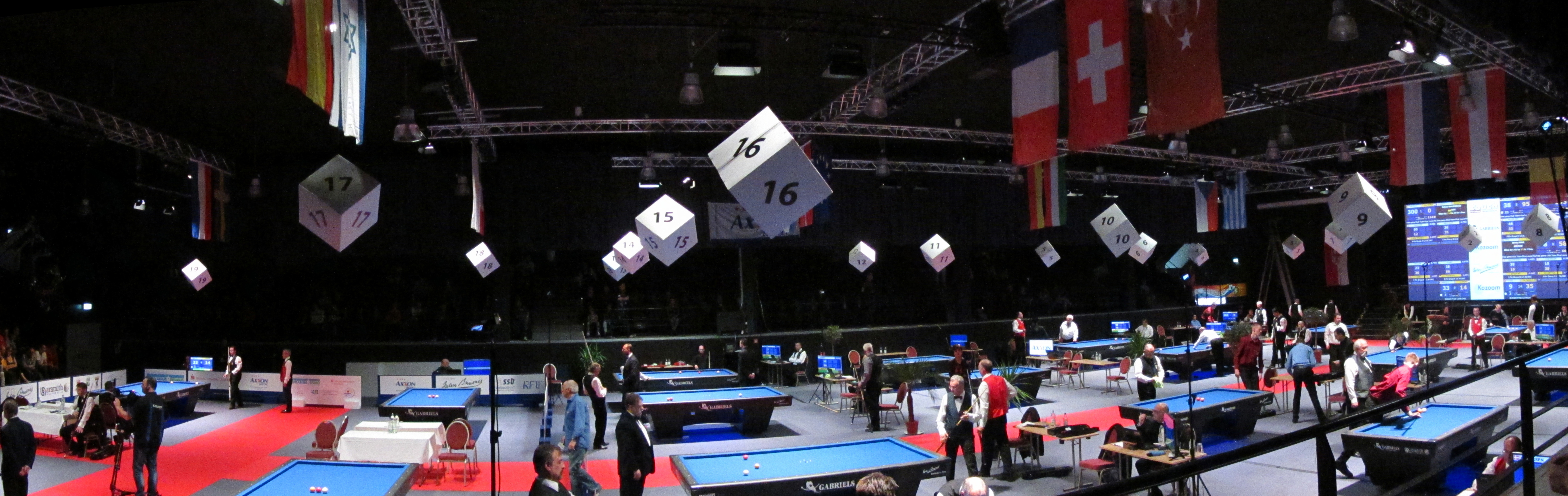 Panoramic view